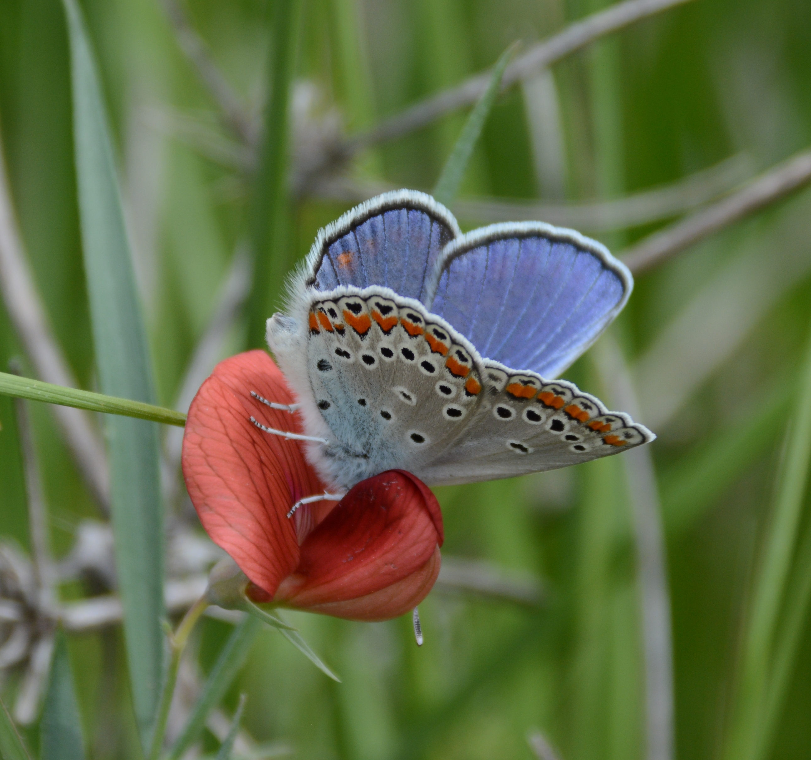 צולם בבקעת קריות - זכר כחליל קליאופטרה Plebejus pylaon cleopatra